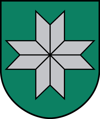 Coat-of-arms of Aloja municipalityLatviešu: Alojas novada ģerbonis